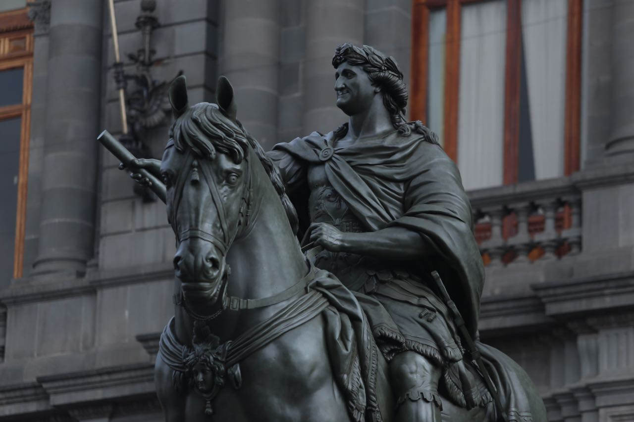 Detail of Equestrian statue of Charles IV of Spain after 2017 restoration